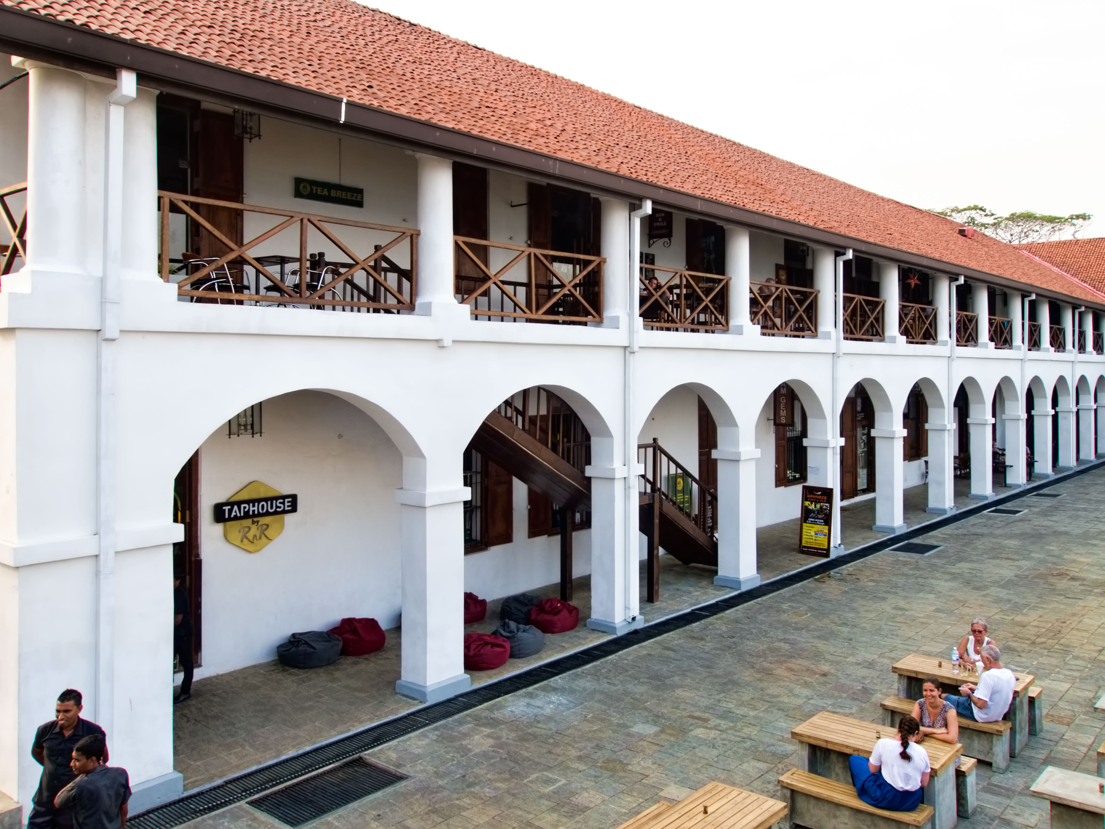 The Dutch Hospital which dates to the 18th century has been restored and now houses shops and restaurants. Galle (pronounced ‘gawl’ in English) owes its prominence to the arrival of Europeans starting with a Portuguese fleet blown off course in 1505 on its way to the Maldives. The Portuguese built a fort beginning in 1589 that was replaced following the Dutch takeover in 1640. Galle became the main port for Sri Lanka for 200 years. By the time the British gained control in 1796, maritime trade was already starting to shift to Colombo. Sri Lanka became independent in 1948. The solid walls of the Fort coupled with the Dutch predilection for good drainage limited the damage inflicted on Galle’s old quarter by the 2004 tsunami. The Old Town of Galle and its Fortifications became a UNESCO World Heritage Site in 1988. On Google Earth: Dutch Hospital 6° 1'35.96"N, 80°13'10.19"E